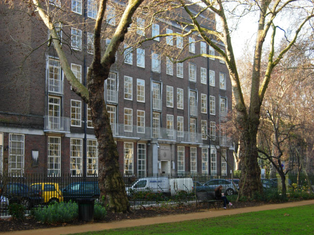 The Warburg Institute, Bloomsbury